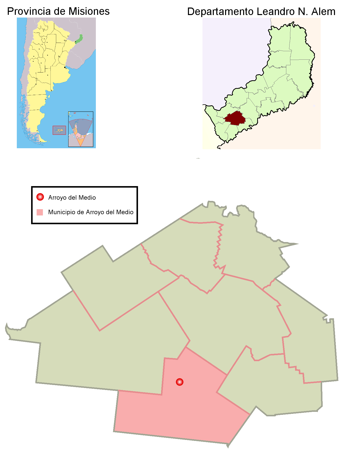 Map showing municipio of Arroyo del Medio in Leandro N. Alem department, Misiones Province, Argentina. Red point marks Arroyo del Medio town.